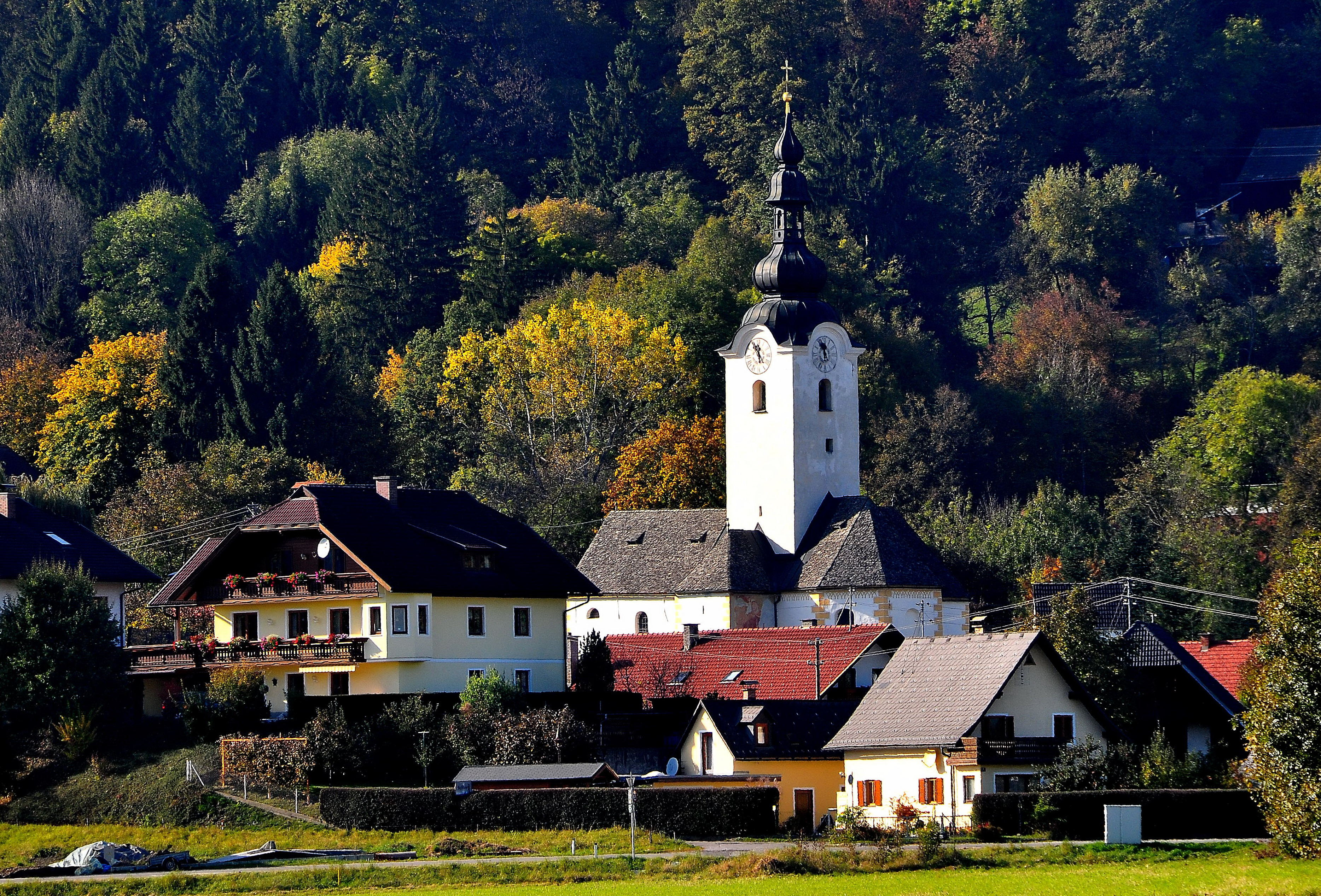 Parish church Holy John the Baptist at Tultschnig, Krumpendorf, district Klagenfurt Land, Carinthia, Austria, EU